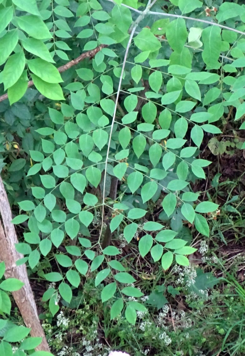 a young Gymnocladus dioicus tree at private ground, Berlin - leaf (bipinnate).